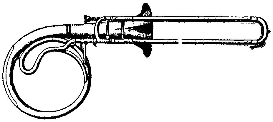 Drawing of a contra-bass trombone.